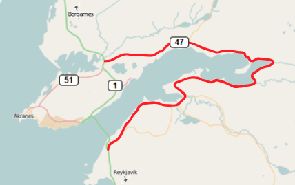 The red line highlights national road number 47 in Iceland. This map may be incomplete, and may contain errors. Don't rely solely on it for navigation.